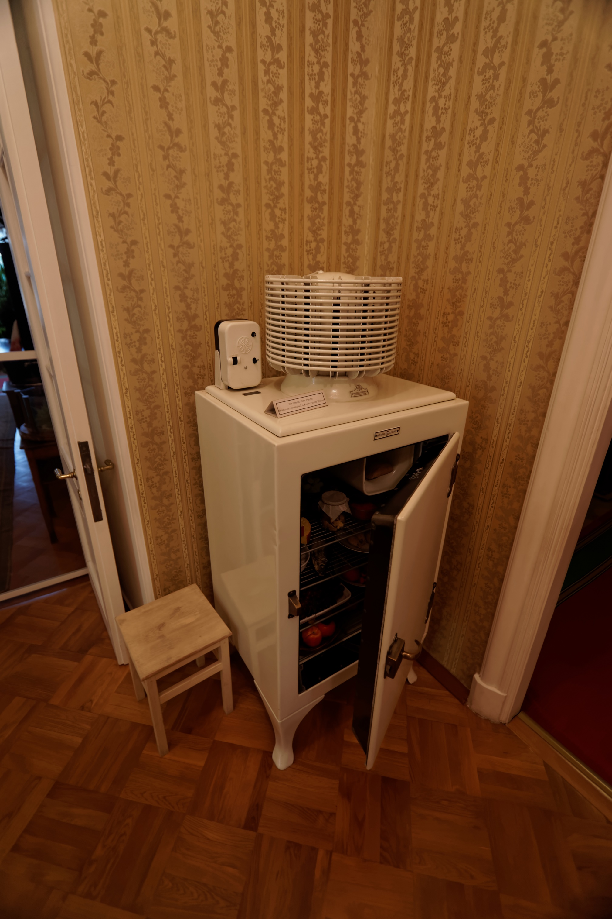 Санкт-Петербург / St Petersburg - Каменноостро́вский проспе́кт / Kamennoostrovsky Prospekt 26-28 - Museum Apartment S.M.Kirov (Серге́й Миро́нович Ки́ров)